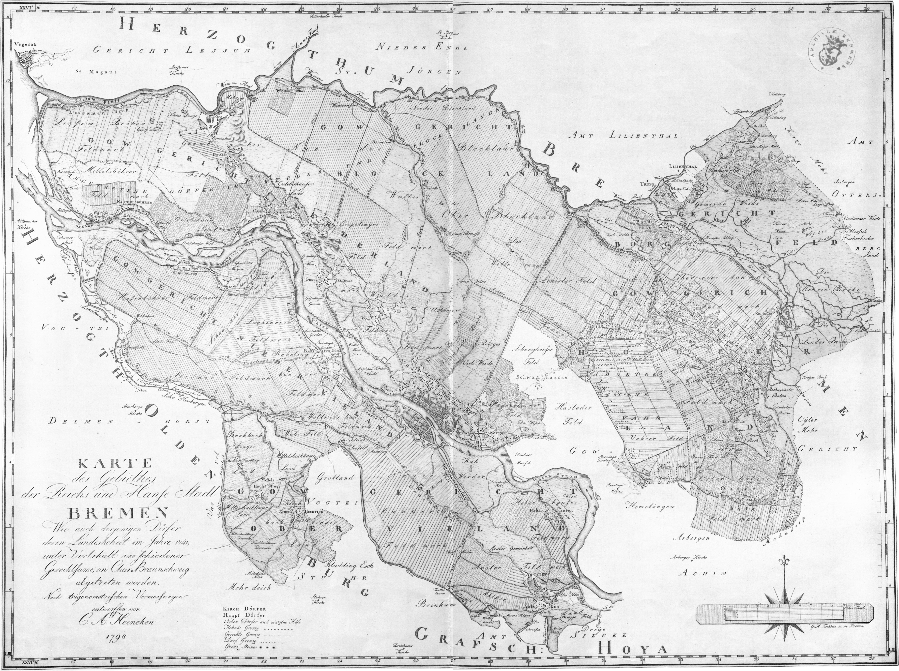 Original title: Map ot the territory of the Imperial and Hansa city of Bremen … outlined by C. A. Heineken